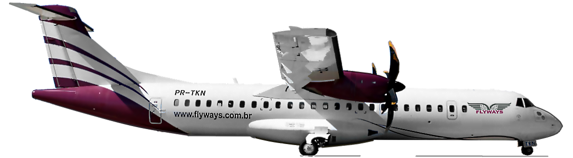 Profile of Aircraft Flyways ATR 72-500